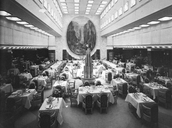 View of the first class dining room on the ocean liner Île de France